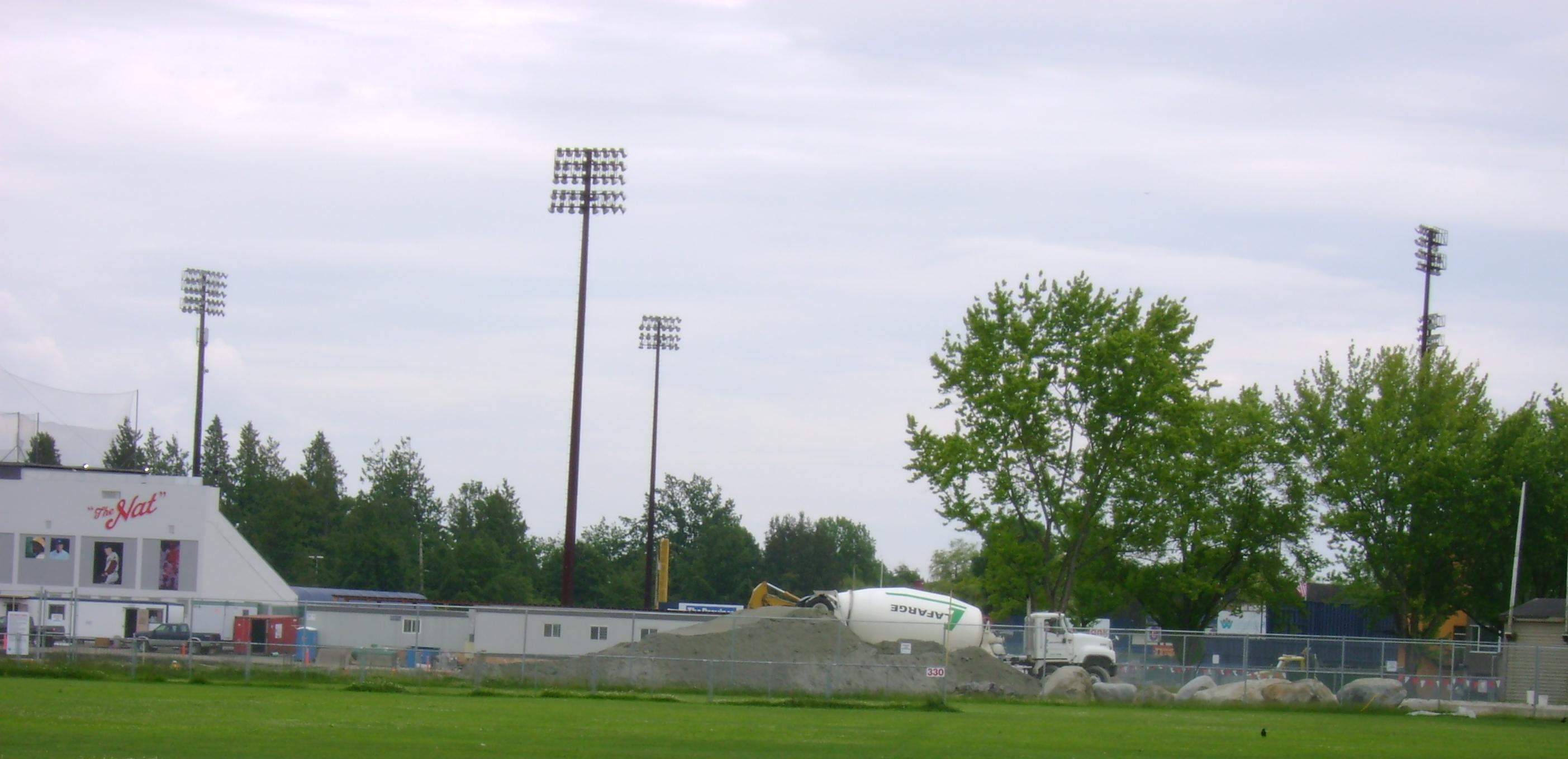 Hillcrest Park in Vancouver during construction.